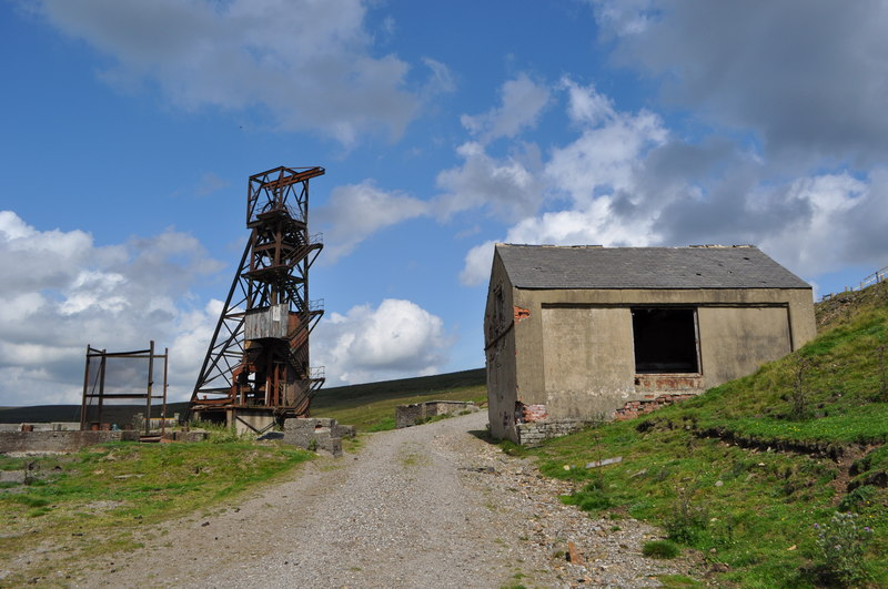 Groverake Lead/Fluorspar Mine, Data from Geograph: Description: The site here was first mined for lead, this wasn't highly sucessful. Three veins cross here;Greencleugh, Groverake and Red. The Burtree Pasture vein also continues to this point. Later operations with lead and fluorspar... more ICBM: 54.791769540529, -2.164195458422 Location: 4 km from Allenheads, Northumberland, Great Britain.